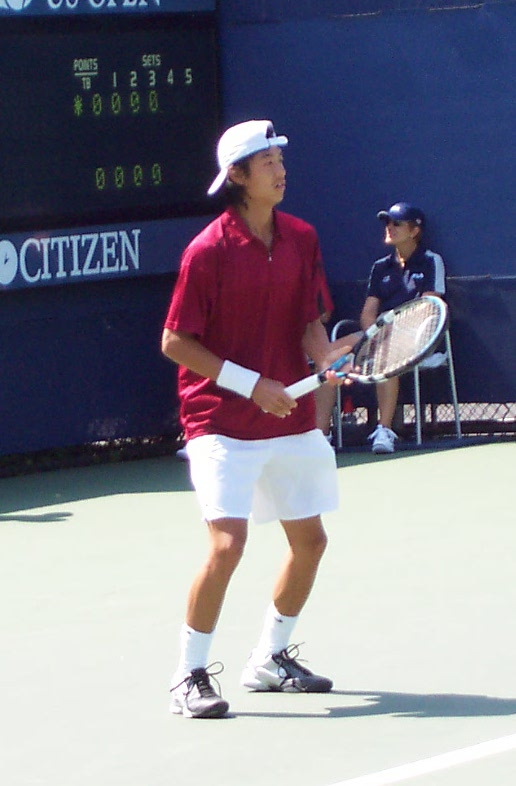 Yeu Tzoo Wang At The 2004 US Open